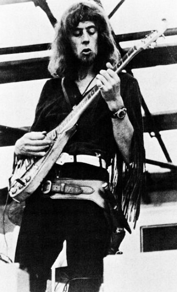 Trade ad for John Mayall's album "Empty Rooms". To better adapt it to his respective Wikipedia article, the ad was cropped and cleaned in a graphics editing program. The original can be viewed at the source below.